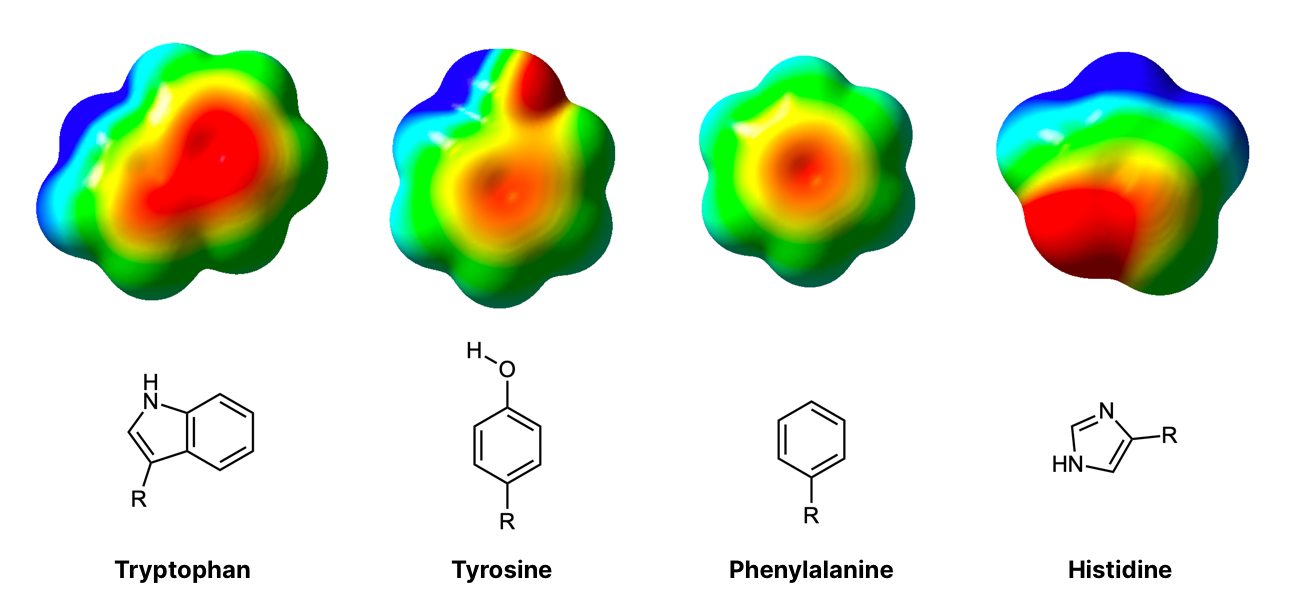 Electrostatic potential maps for aromatic moieties of four proteinogenic amino acids are shown along with their structures. The electrostatic potential maps were generated using gaussview with an isovalue of 0.0004 after energy calculations (BL3YP/6.31G(d)) made with gaussian03. The maps were scaled from -3e-2 to 3e2.